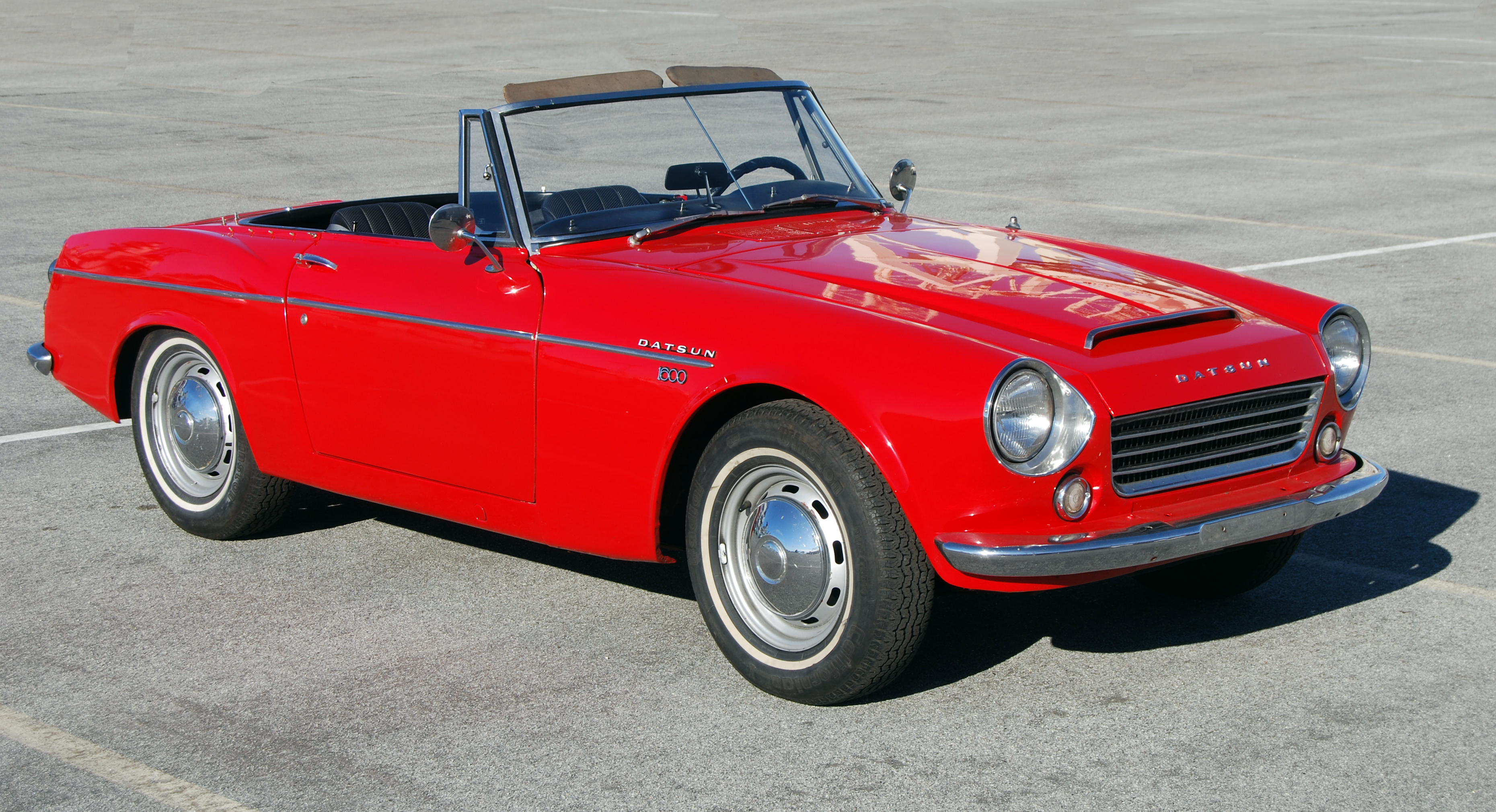 1966-1967 Datsun 1600 Sports (Fairlady) SPL311